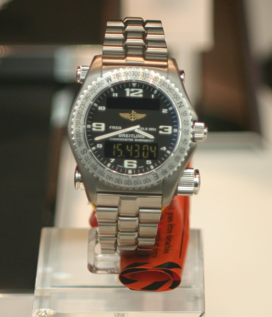 Transmitter radio beacon of distress on Airband radios on TX 121,5 MHz